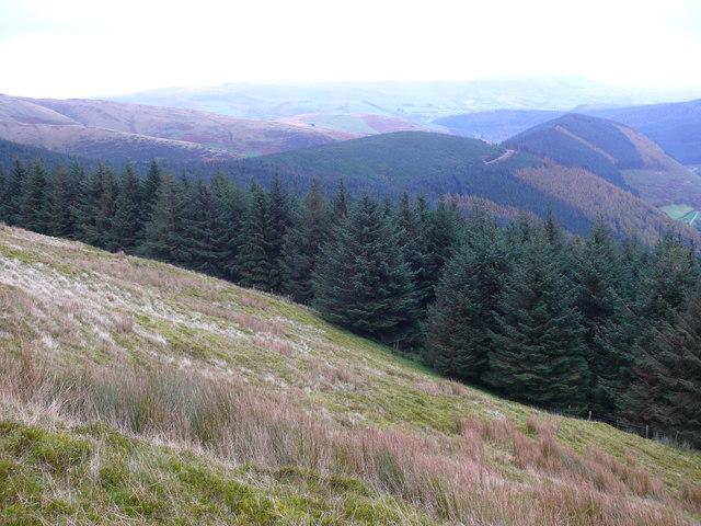 Mynydd Gartheiniog Mynydd Gartheiniog, Fforest Coniferaidd / Coniferous Forest Mynydd Gartheiniog